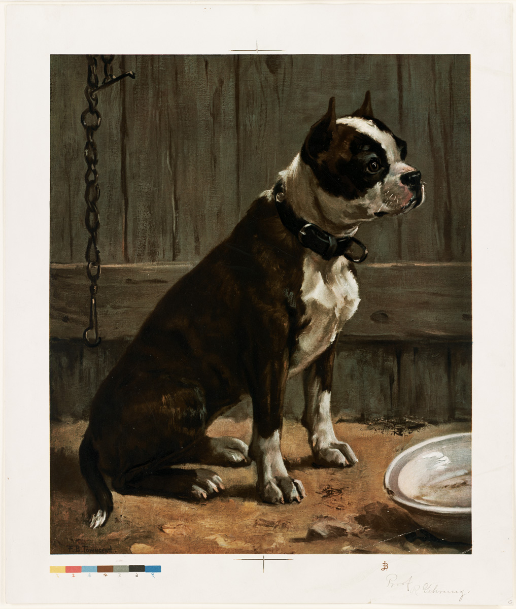 File name: 07_11_000746 Title: Terrier Seated Creator/Contributor: Townsend, F. B. (Frances B.), 1863-1916 (artist); L. Prang & Co. (publisher) Date issued: 1861-1897 (approximate) Copyright date: Physical description note: Proof print Genre: Chromolithographs; Proofs Location: Boston Public Library, Print Department Rights: No known restrictions Flickr data on 2011-08-06: Camera: Sinar AG Sinarback 54 FW, Sinar m License: CC BY 2.0 User: Boston Public Library BPL